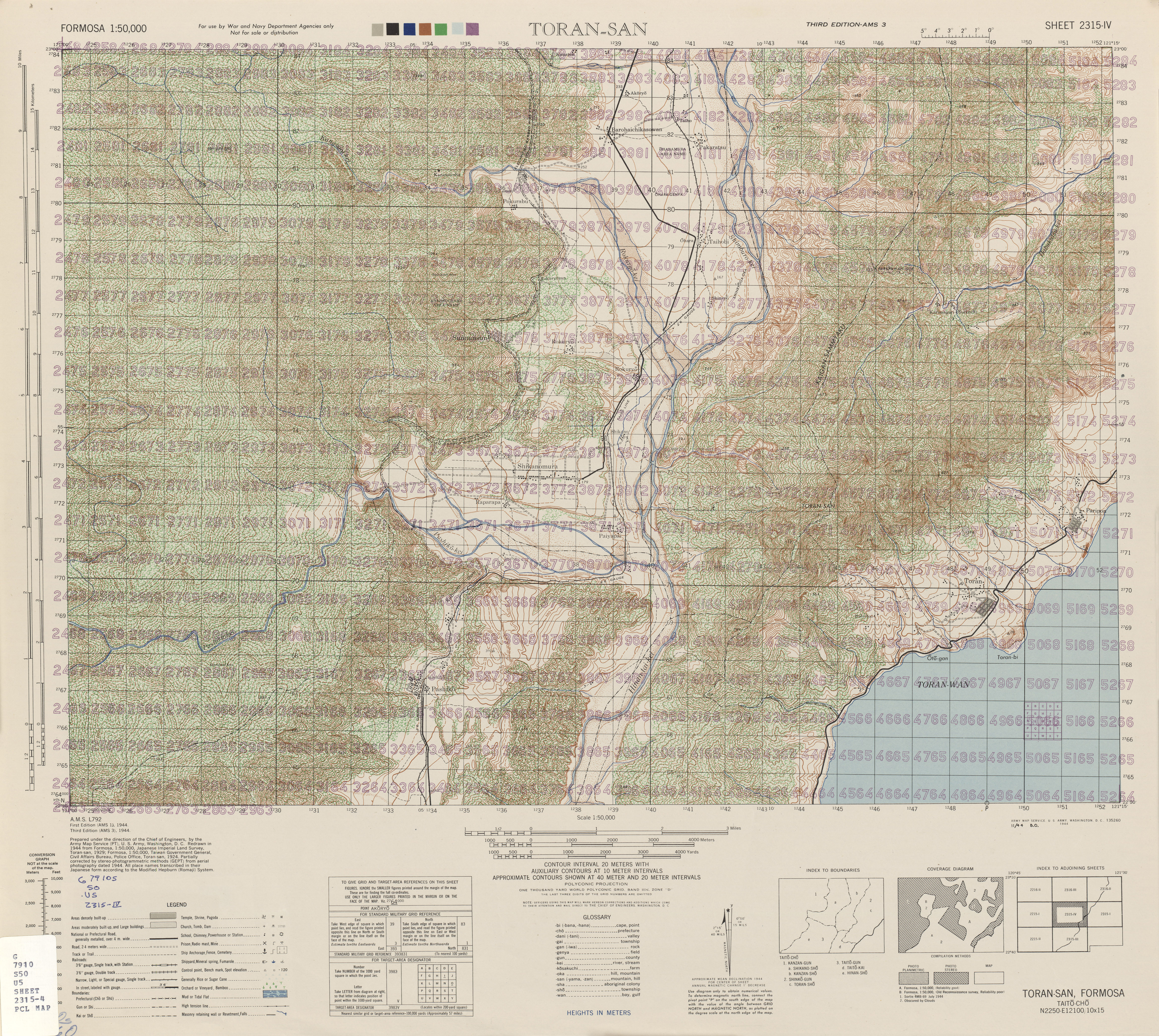 Map from Formosa (Taiwan) 1:50,000 AMS Series L792